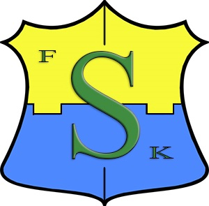 Emblem of football club FK Salaspils